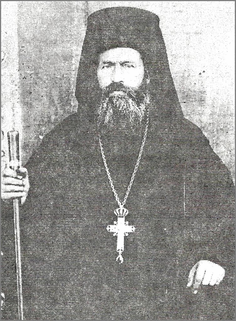 Ioannis Spanos